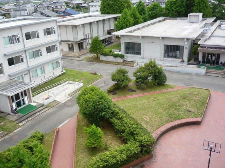 学寮（有志寮）